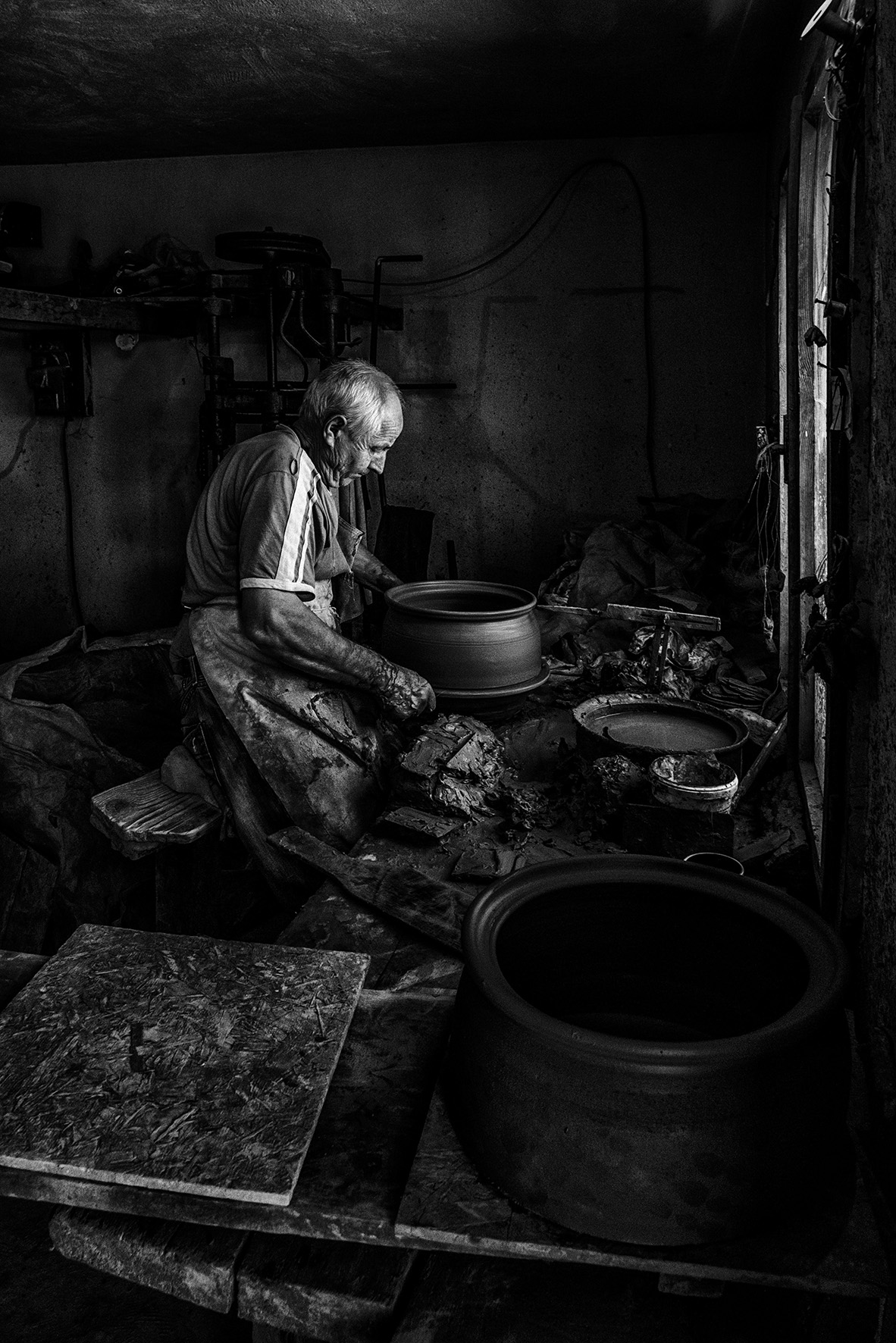 The Potter